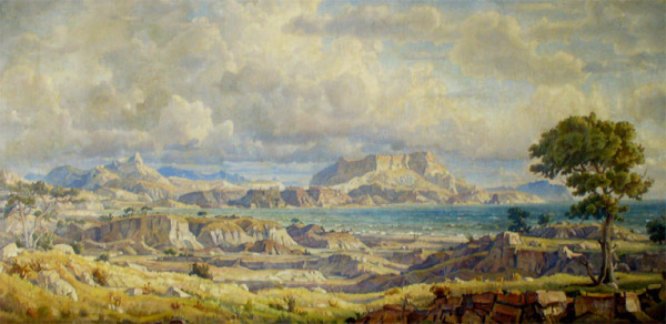 The author - Konstantin Fedorovich Bogaevsky. "Southern coast of Crimea. Cimmeria (Heroic landscape)". 1937. Oil on canvas, 205x420. Collection of the Sochi Art Museum.